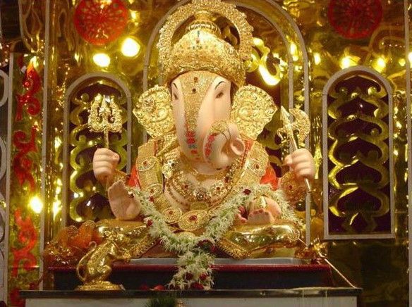 Dagdusheth Ganpati 2005